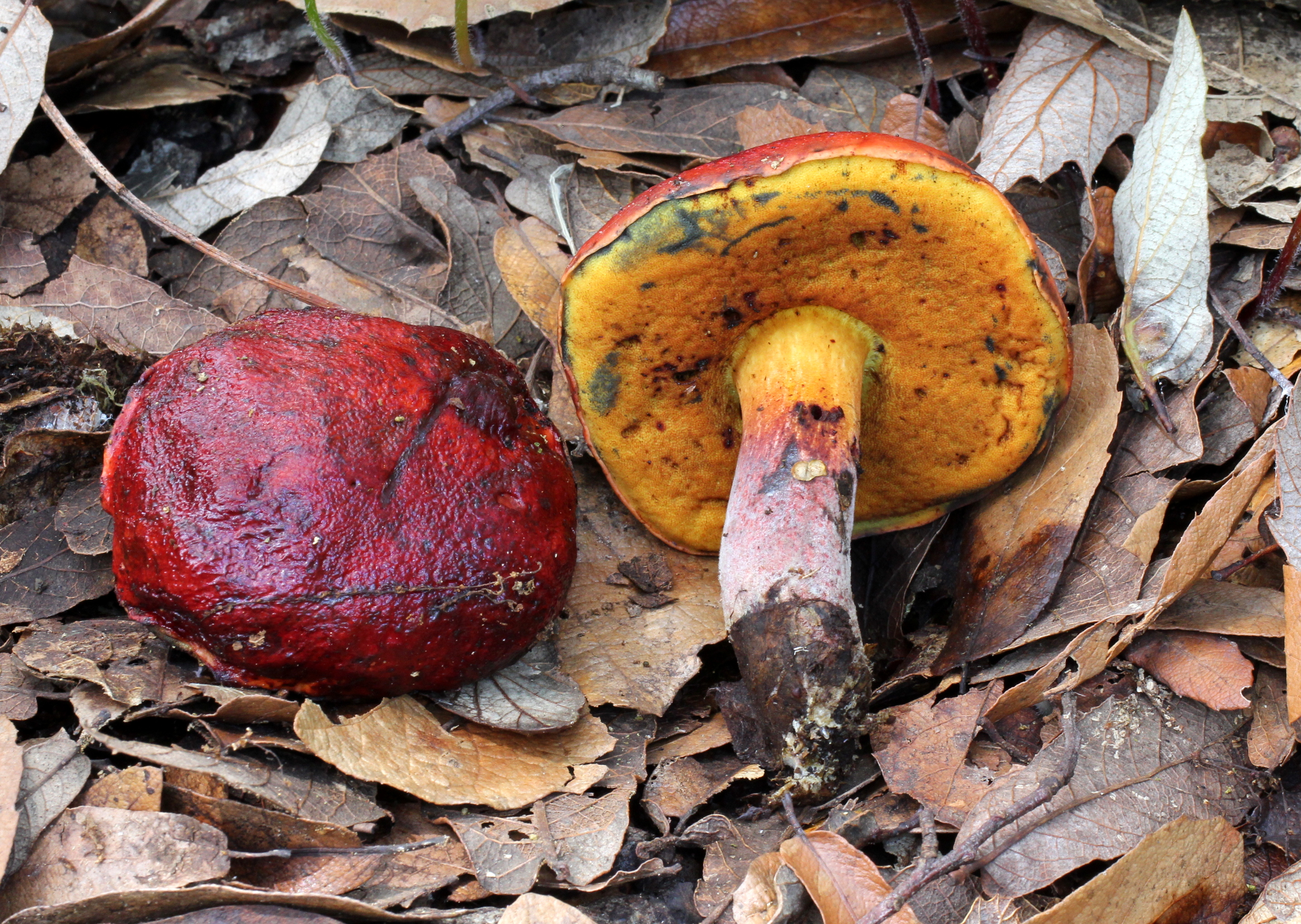 Boletus dupainii Boud. Image location: Sierra de Quila, Jalisco, Mexico Under oak. Recognized by sight: Red cap, shiny when dry. Stem yellow at the apex, reddish below, pruinose. Hymenophore yellow, bruising blue. Pores circular, reddish-orange, slightly decurrent. With oaks. Used references: For more information about this, see the observation page at Mushroom Observer.